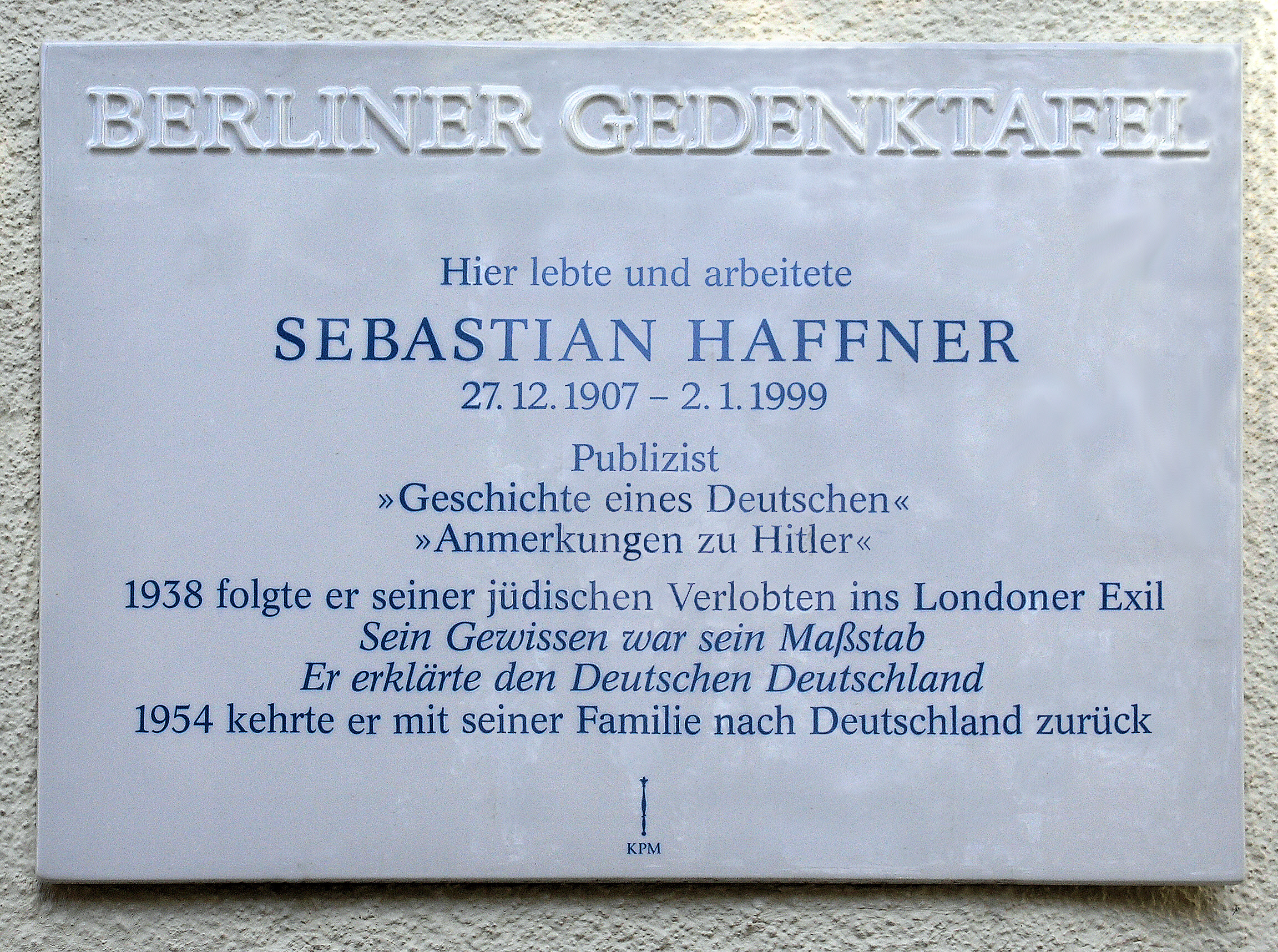 Berlin memorial plaque, Sebastian Haffner, Ehrenbergstraße 33, Berlin-Dahlem, Germany